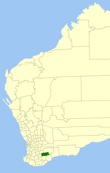 Description=Location of the Local Government Area in Western Australia